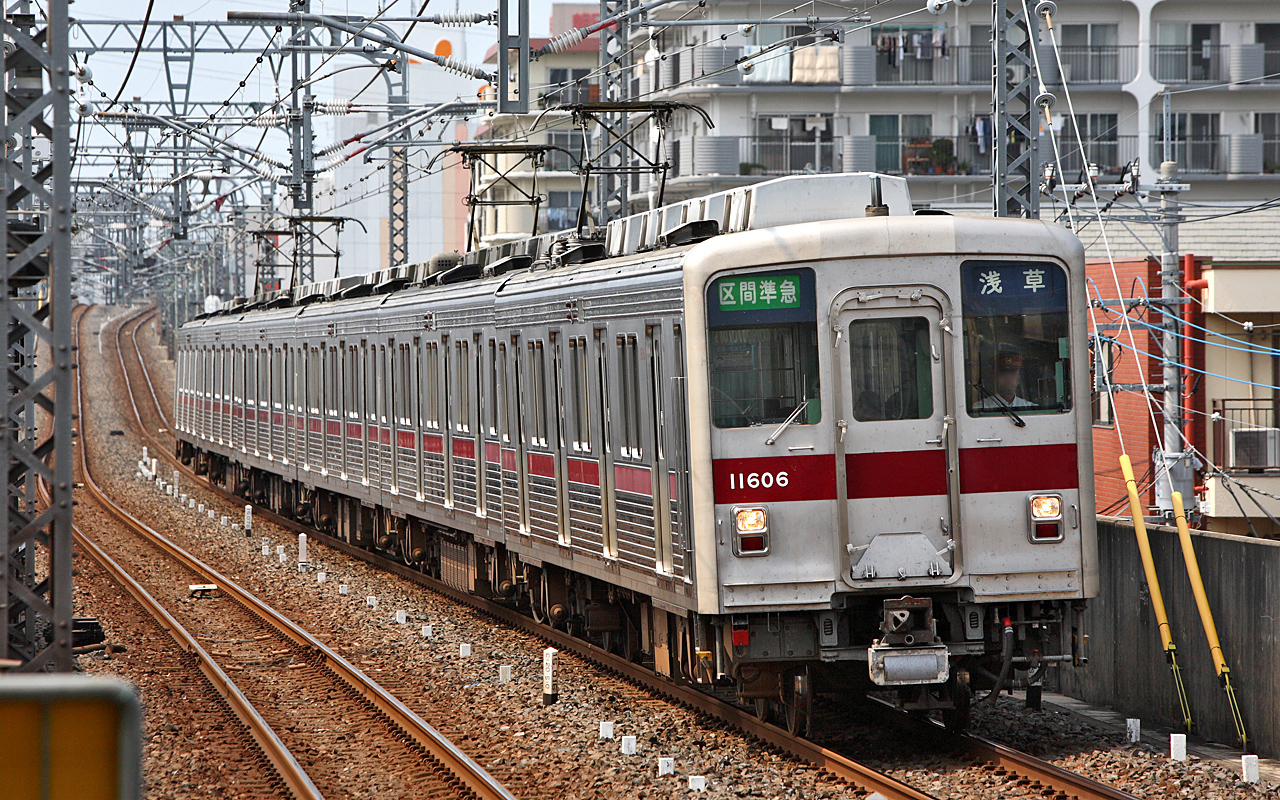 Tobu Railway 10000 series six-car EMU 11606